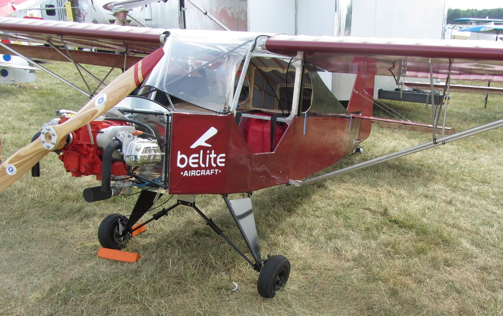 Belite Utlra Cub